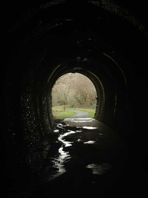 Tunnel on the Old Railway Line. The Old Railway Line forms part of a Local Nature Reserve (with Cairn SS5146 )